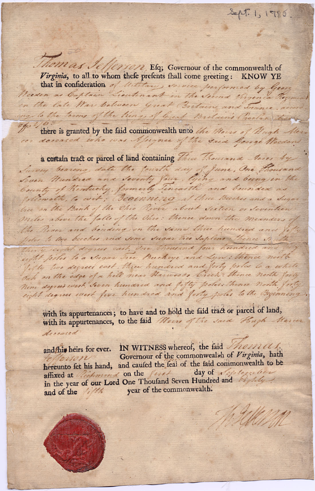 Three-thousand acre land grant to the heirs of Hugh Mercer, Kentucky County, Virginia, the assignee of George Weedon for Capt. Lieut. Weedon's service in Virginia's Second Regiment during the French and Indian War, and according to the terms of King George III's proclamation. [1] Document courtesy of the Special Collections Research Center, University of Chicago Library, Library of Congress Digital Collections.